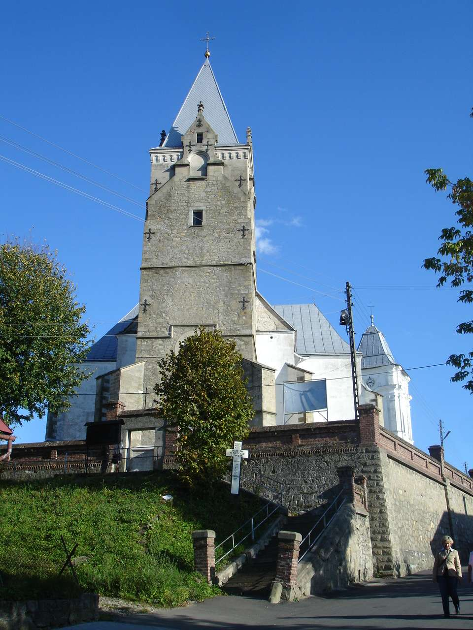 latin church in Lesko